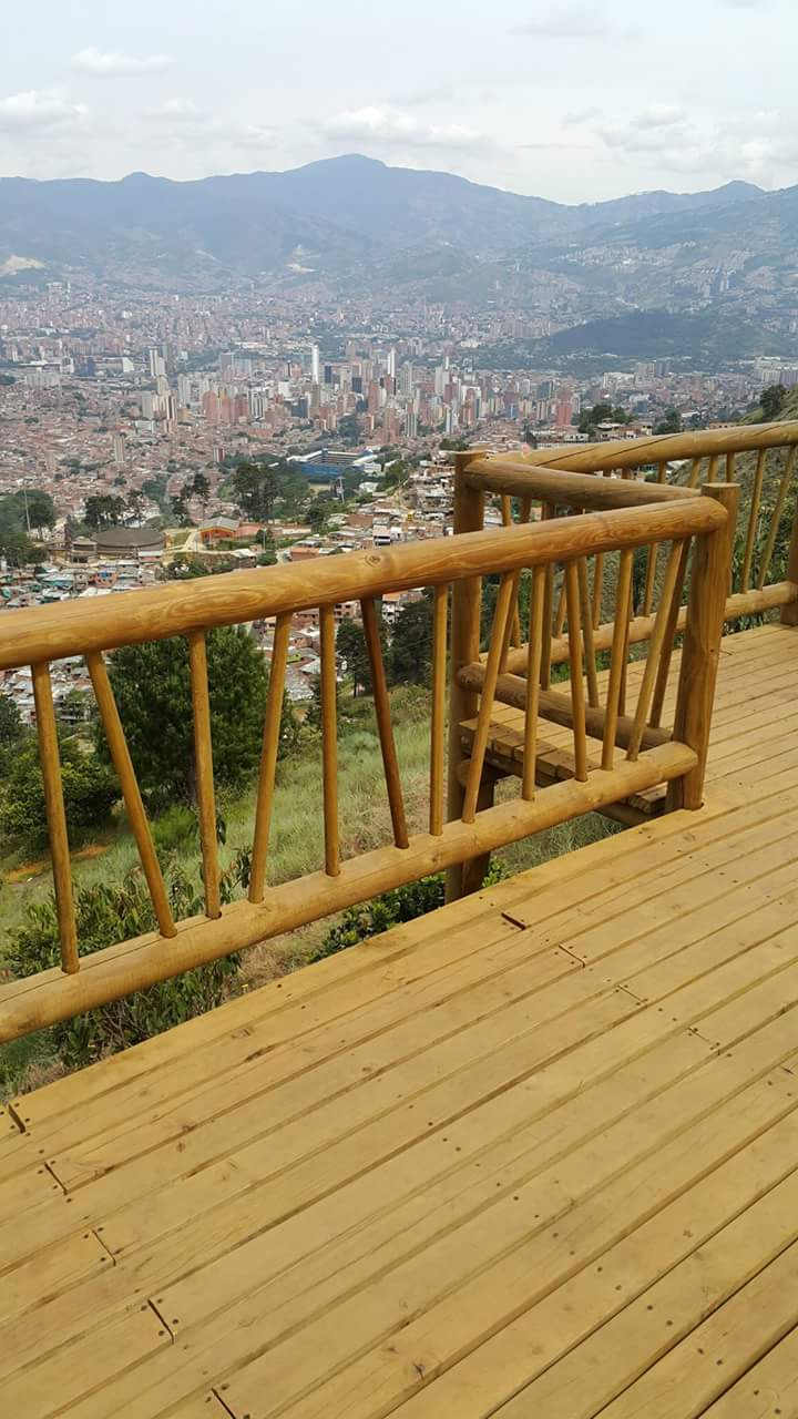 On the way to Pan de Azucar, Medellin